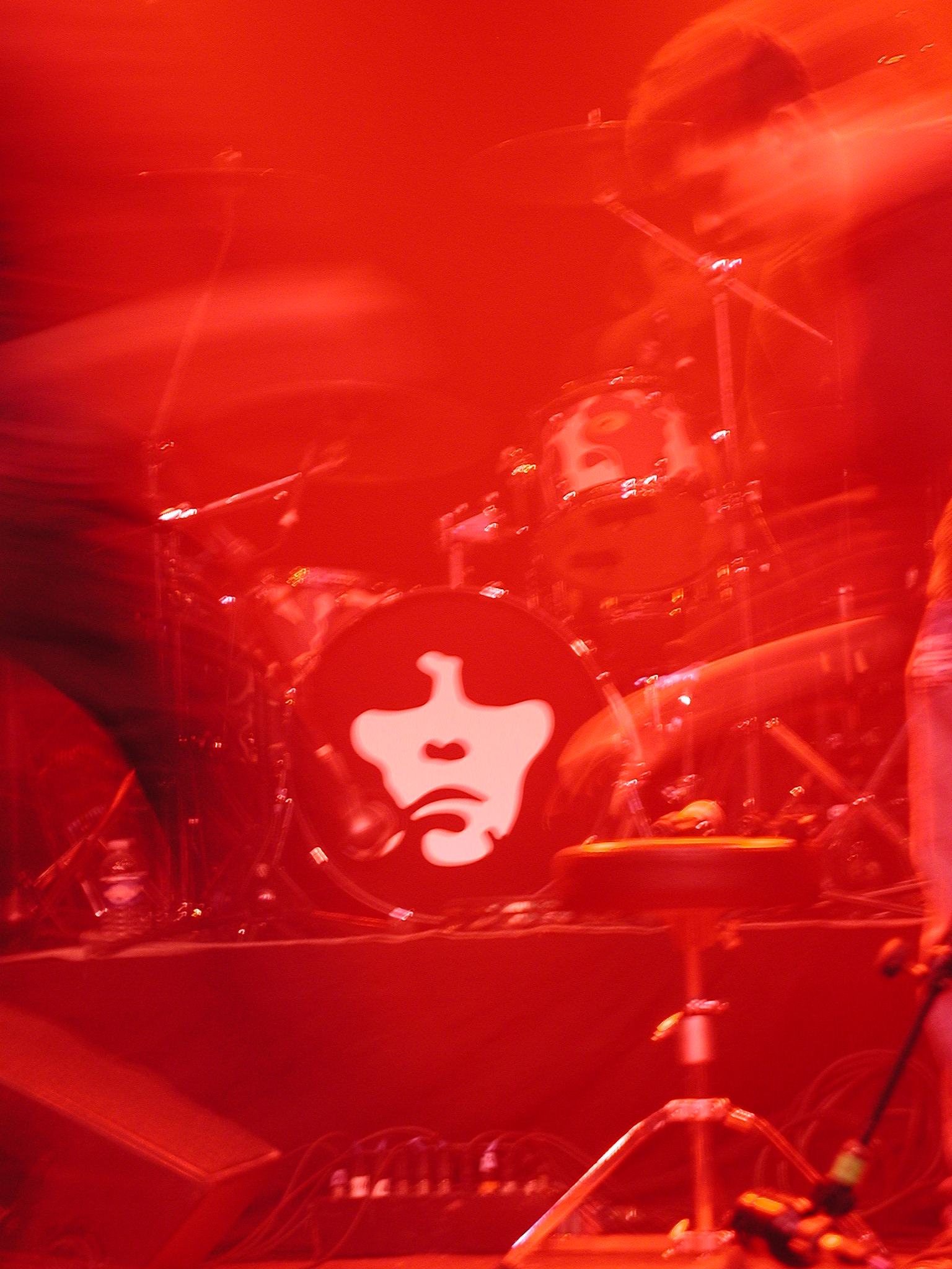 Ian Brown the world is yours